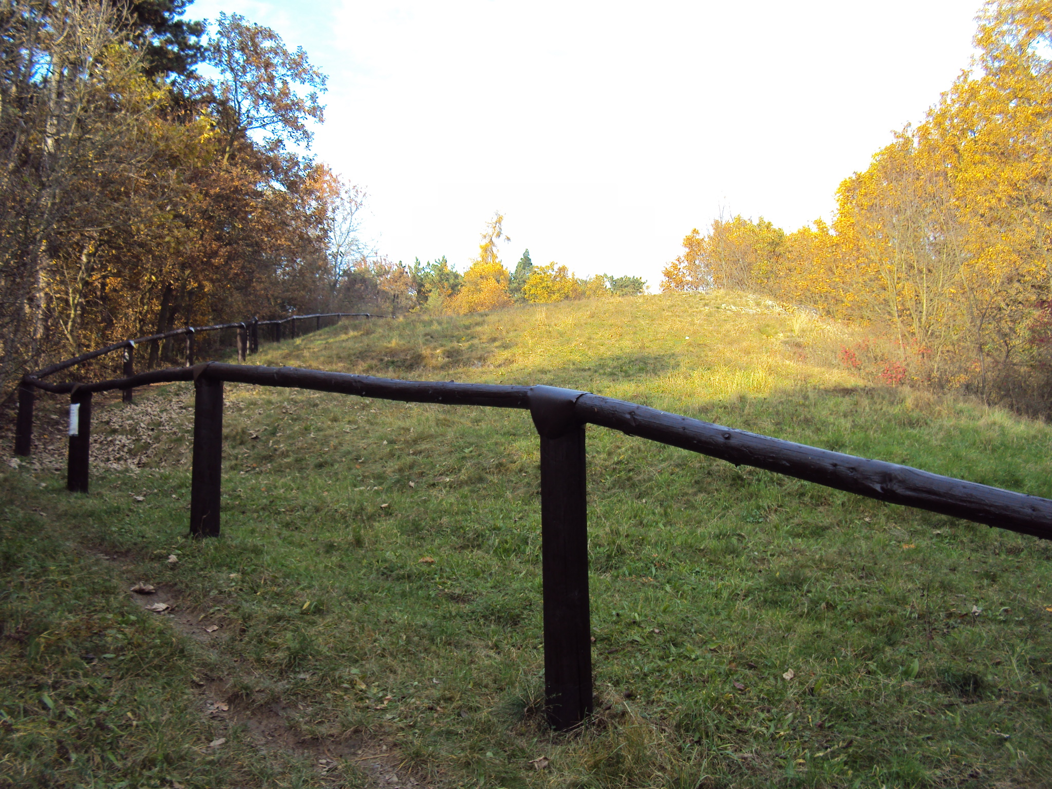 Natural protected site called Pitkovická stráň, near Prague